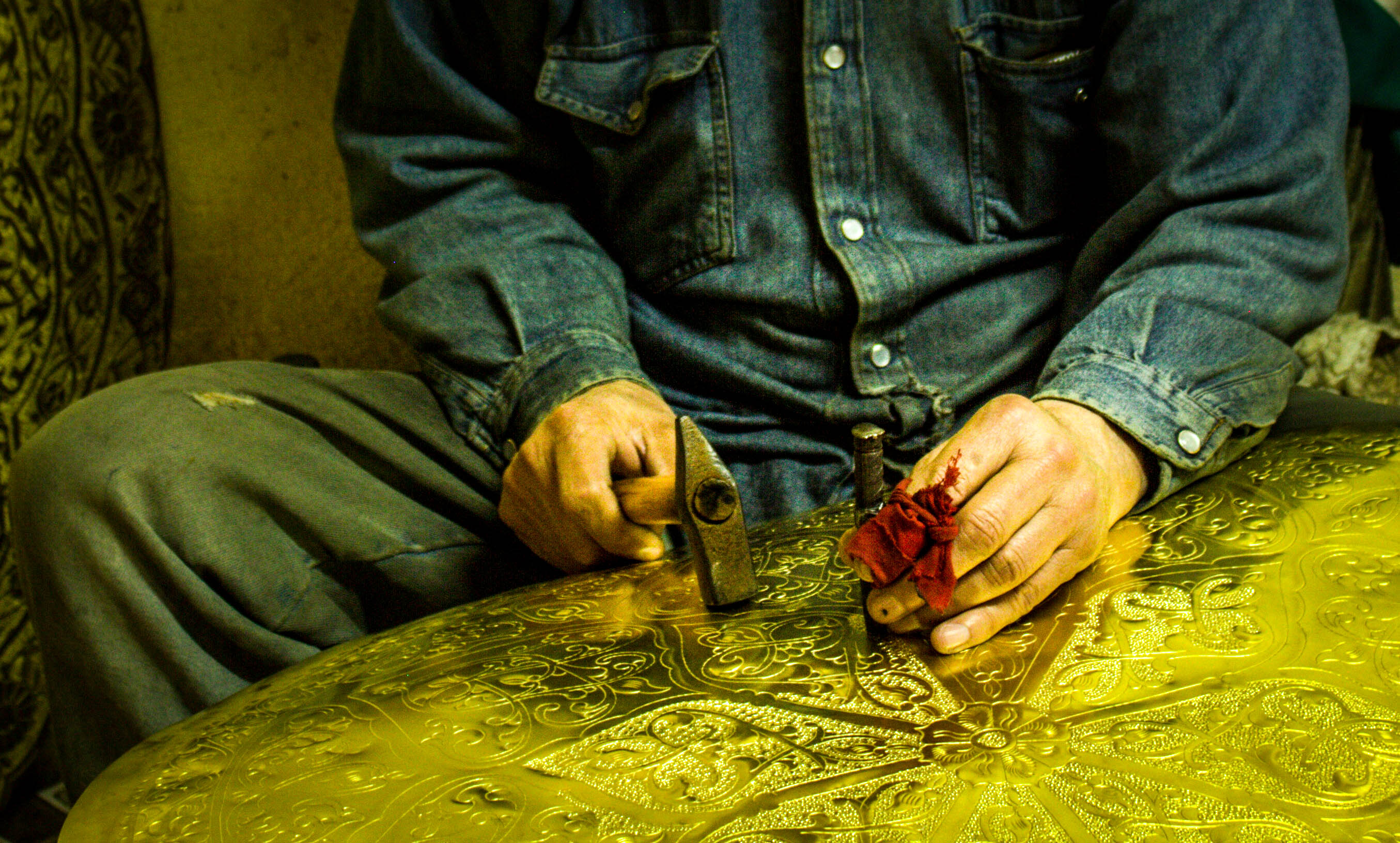 This craftsman is holding into a business which is about to vanish. Hats off for hardworking men all around the world. This is an image of "African people at work" from Algeria